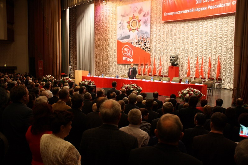 XIII (13) Congress of the Communist Party of the Russian Federation (KPRF). Moscow, concert hall "Izmailovo"